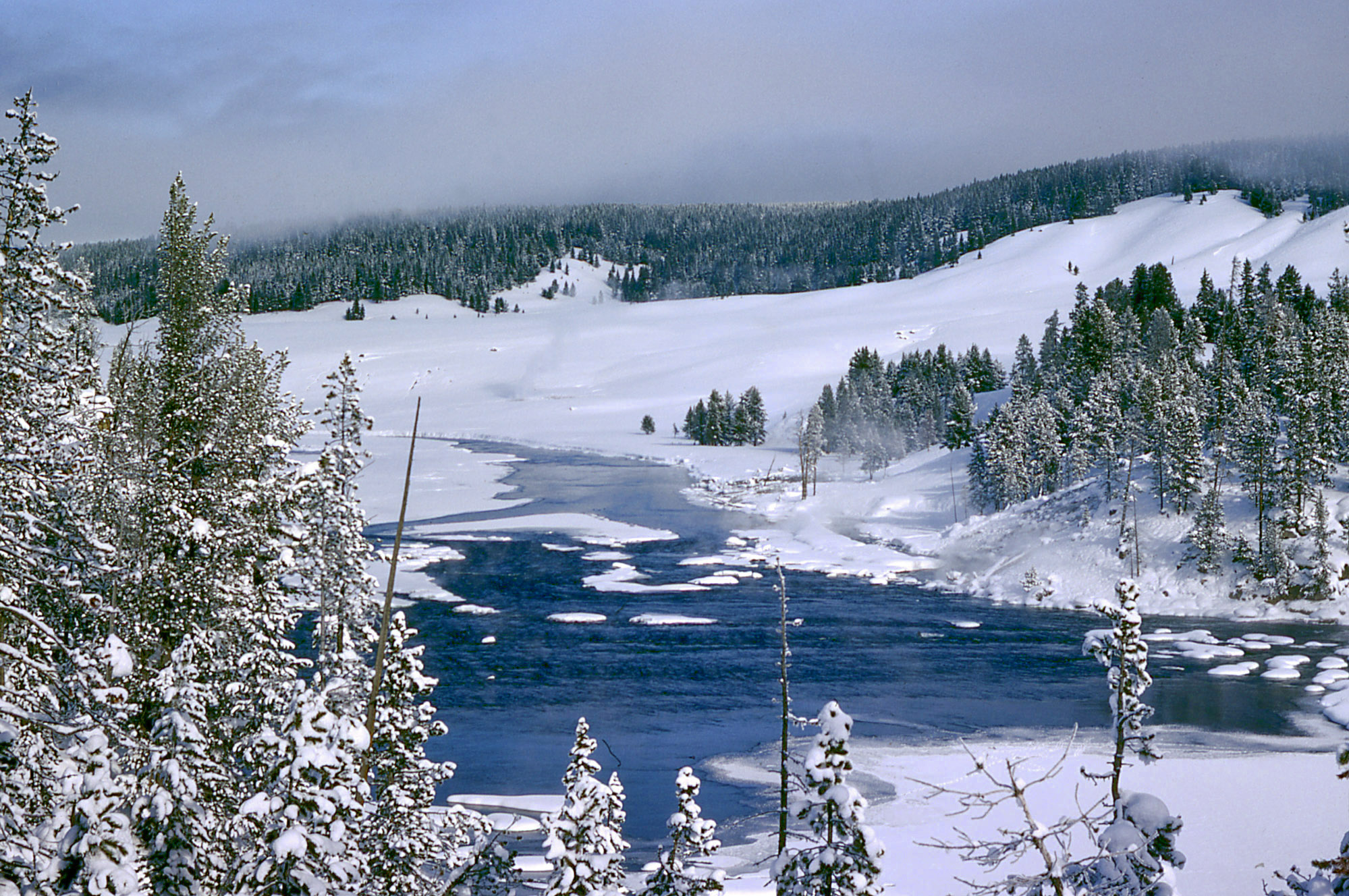 Winter in Yellowstone, Wyoming, United States. You can see some steam near the river resulting from geothermal activity.